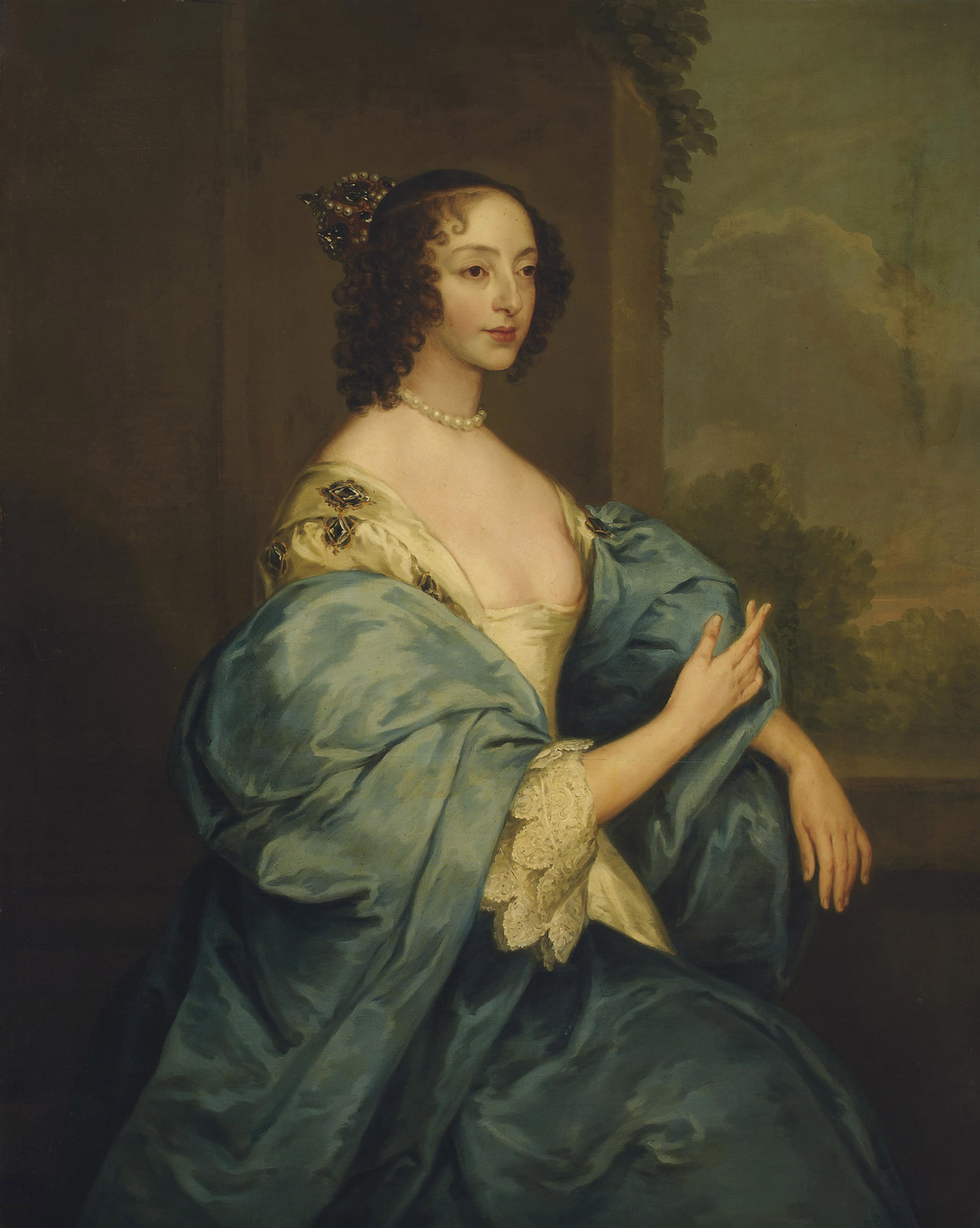 Portrait of Queen Henrietta, attributed to van Dyck, before removal of over-painting, as featured in series 2, episode 3 of the BBC series Fake or Fortune?.